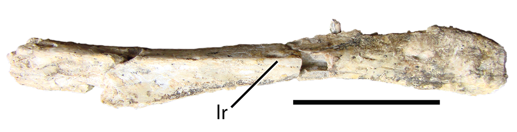 Eshanosaurus deguchiianus (IVPP V11579) right dentary in lateral view